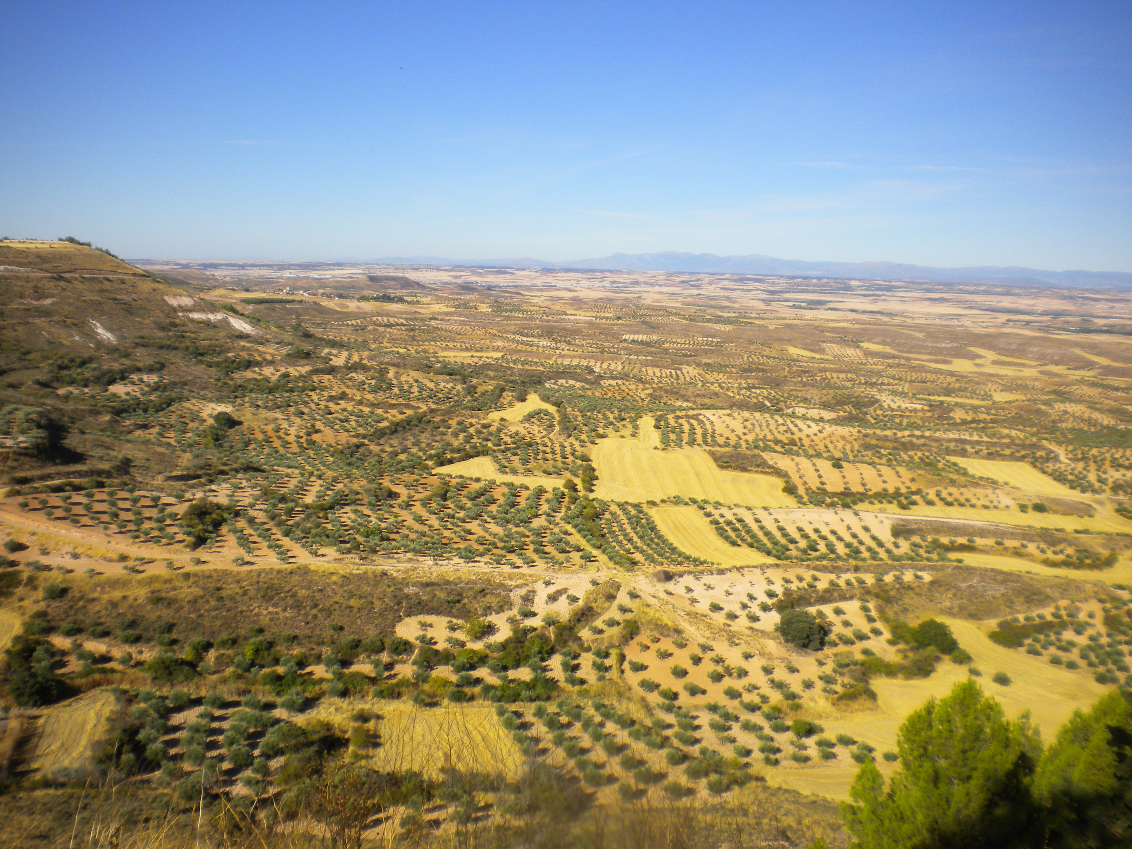 Landscape of La Alcarria from the municipality of Trijueque (Guadalajara, Spain).